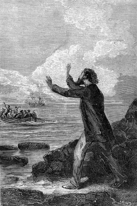 An ilustration from the novel "In Search of the Castaways; or Captain Grant's Children" by Jules Verne drawn by Édouard Riou.